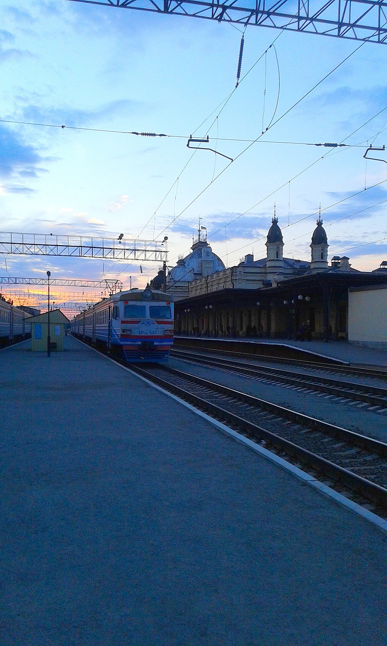 (4) RAILWAY STATION IN CITY OF ZHMERYNKA REGION OF VINNYTSIA STATE OF UKRAINE PHOTOGRAPH BY VIKTOR O LEDENYOV 20160509